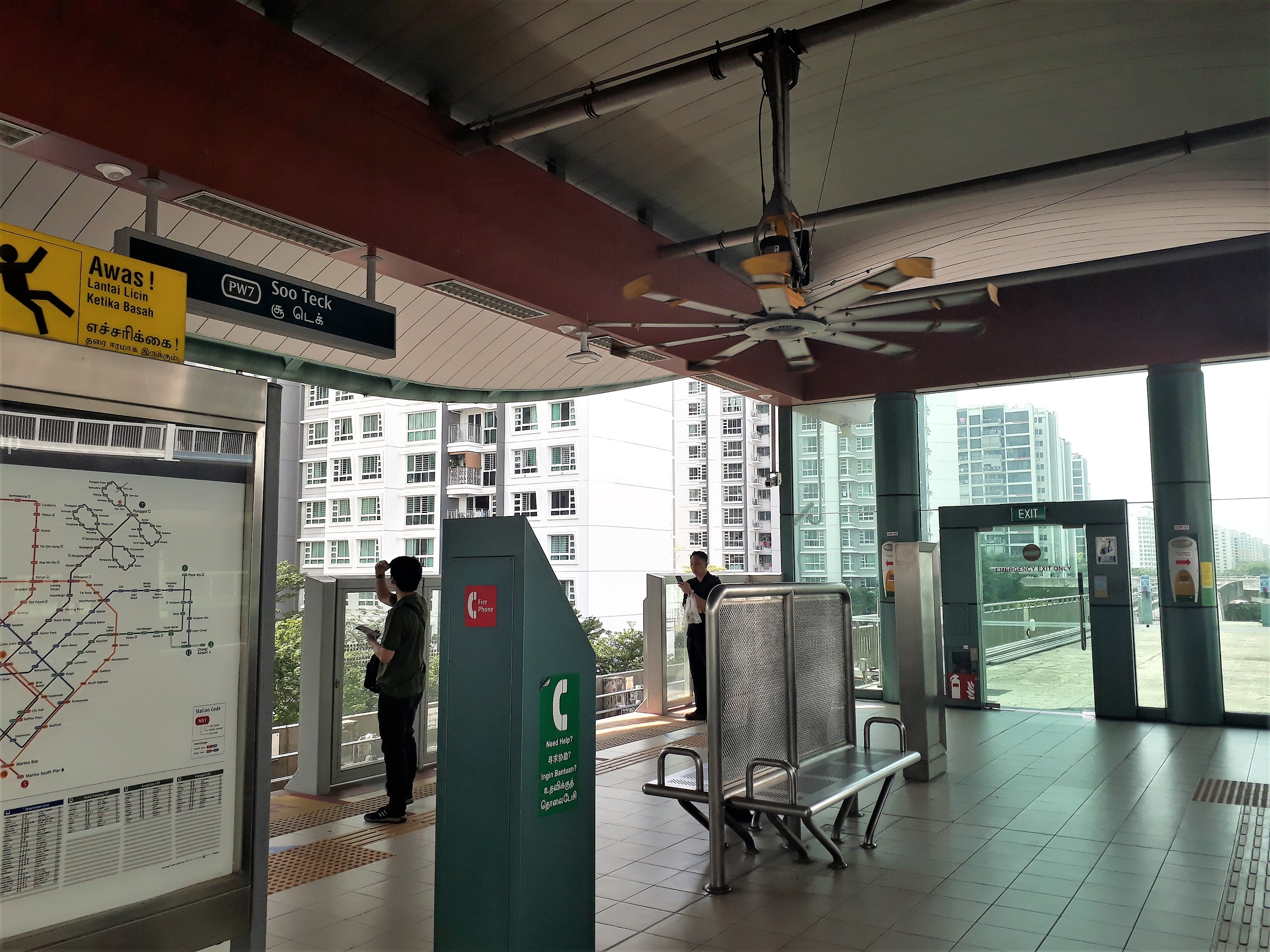 Platform 2 of Soo Teck